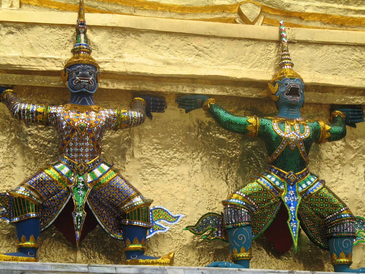 Thai Temple